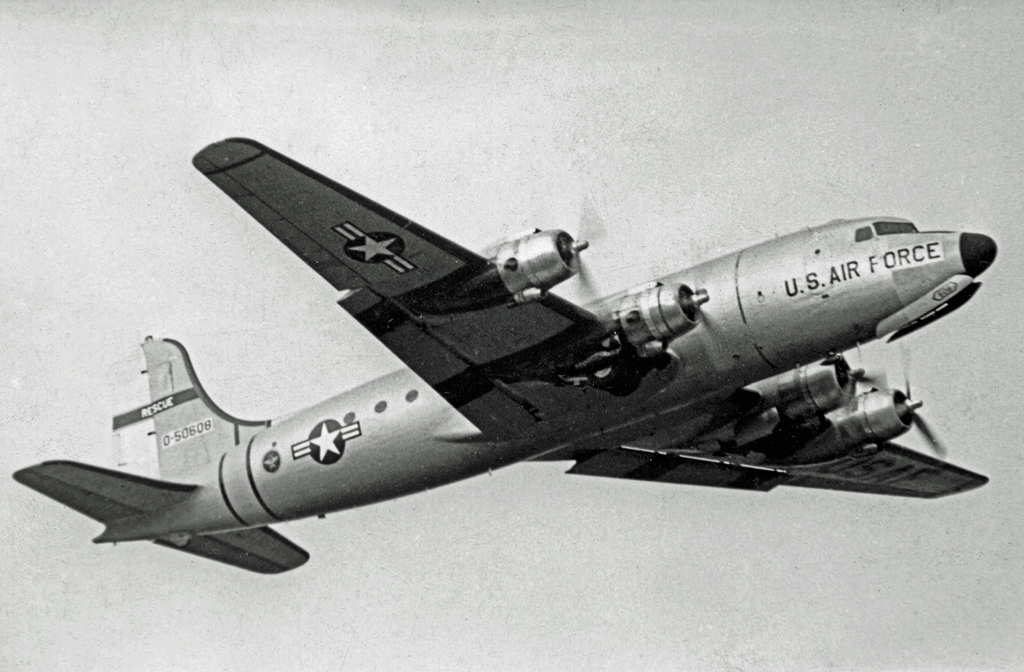 Douglas HC-54G Skymaster (s/n 45-608) search and rescue aircraft of the USAF at Prestwick Airport (UK), in October 1963. This aircraft was retired to the MASDC as CC224 on 2 November 1972. It was sold to Pan American Airways as N88957 "Clipper Oriental". It was later in service with Aero Union as N3373F and crashed at Kenai, Alabama (USA) on 14 July 1981.